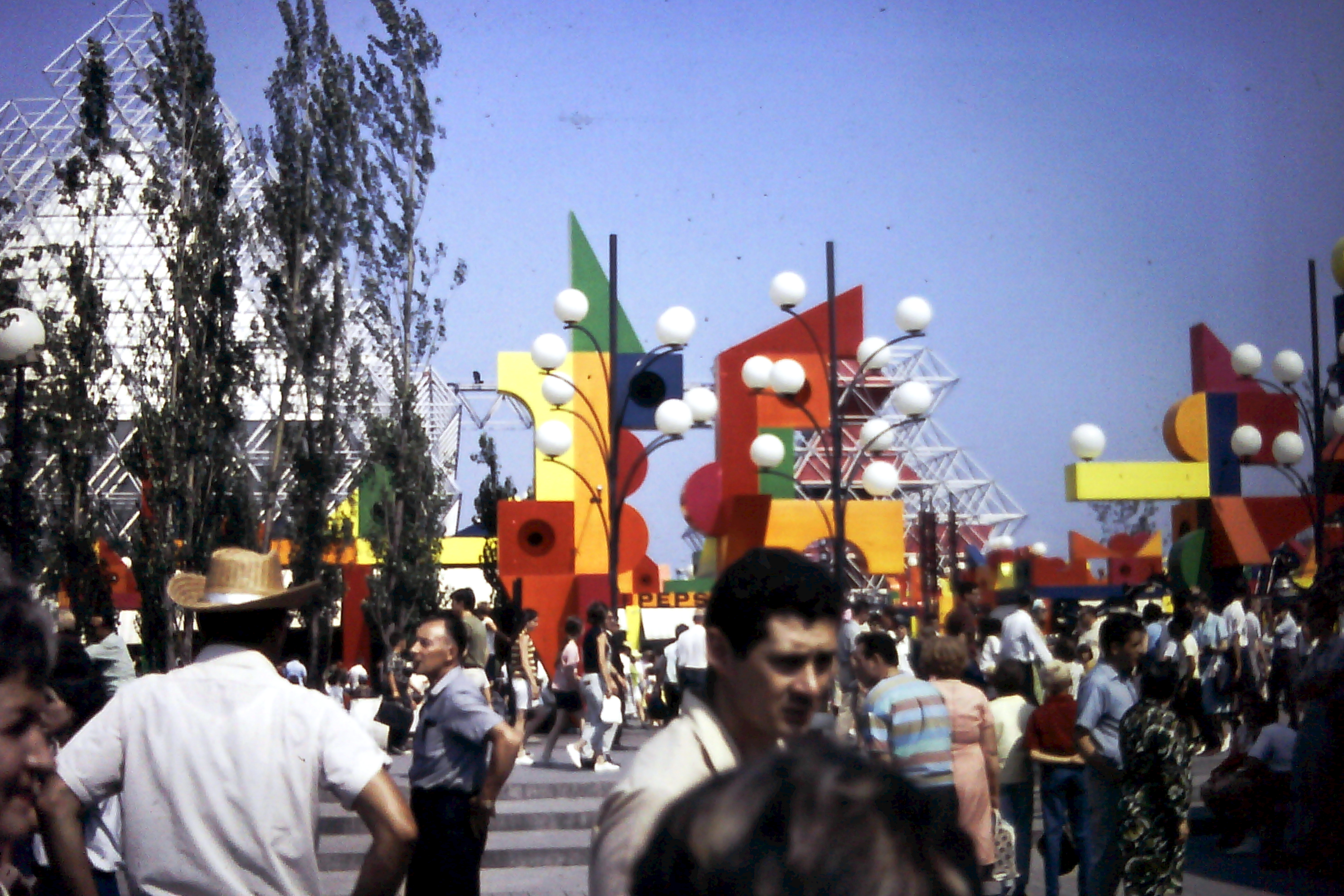 La Ronde, the Gyrotron ( on the left). This picture was taken by my father at Expo 67 (I was -7 years old at the time). I scanned these pictures from slides.